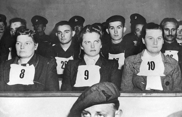 Irma Grese in the middle (number 9) during the Belsen Trial 8: Hertha Ehlert 9: Irma Grese 10 :Ilse Lithe